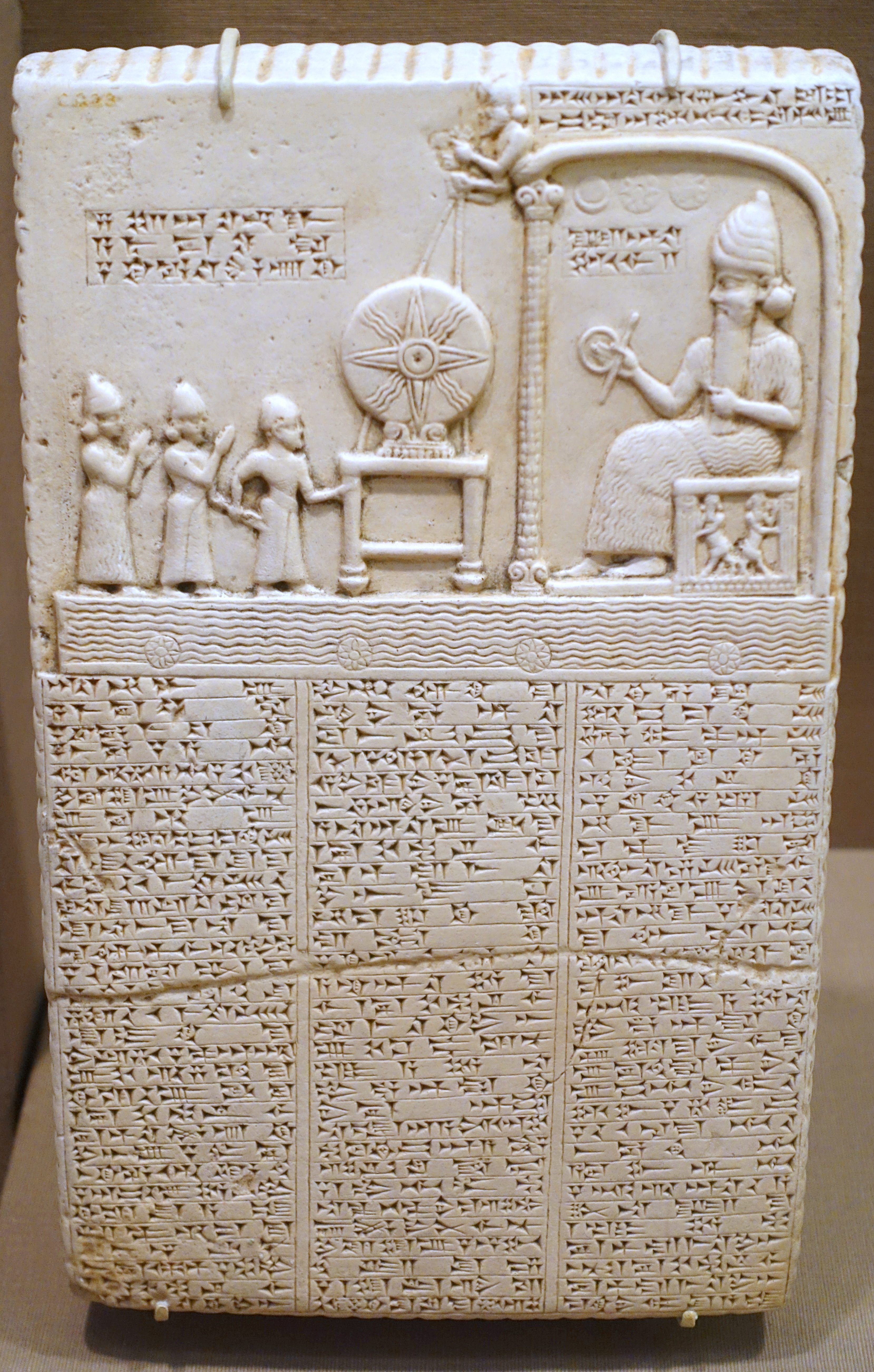 Exhibit in the Oriental Institute Museum, University of Chicago, Chicago, Illinois, USA. This work is old enough so that it is in the public domain.